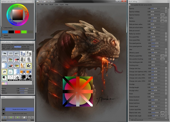 A simple layout of MyPaint software windows